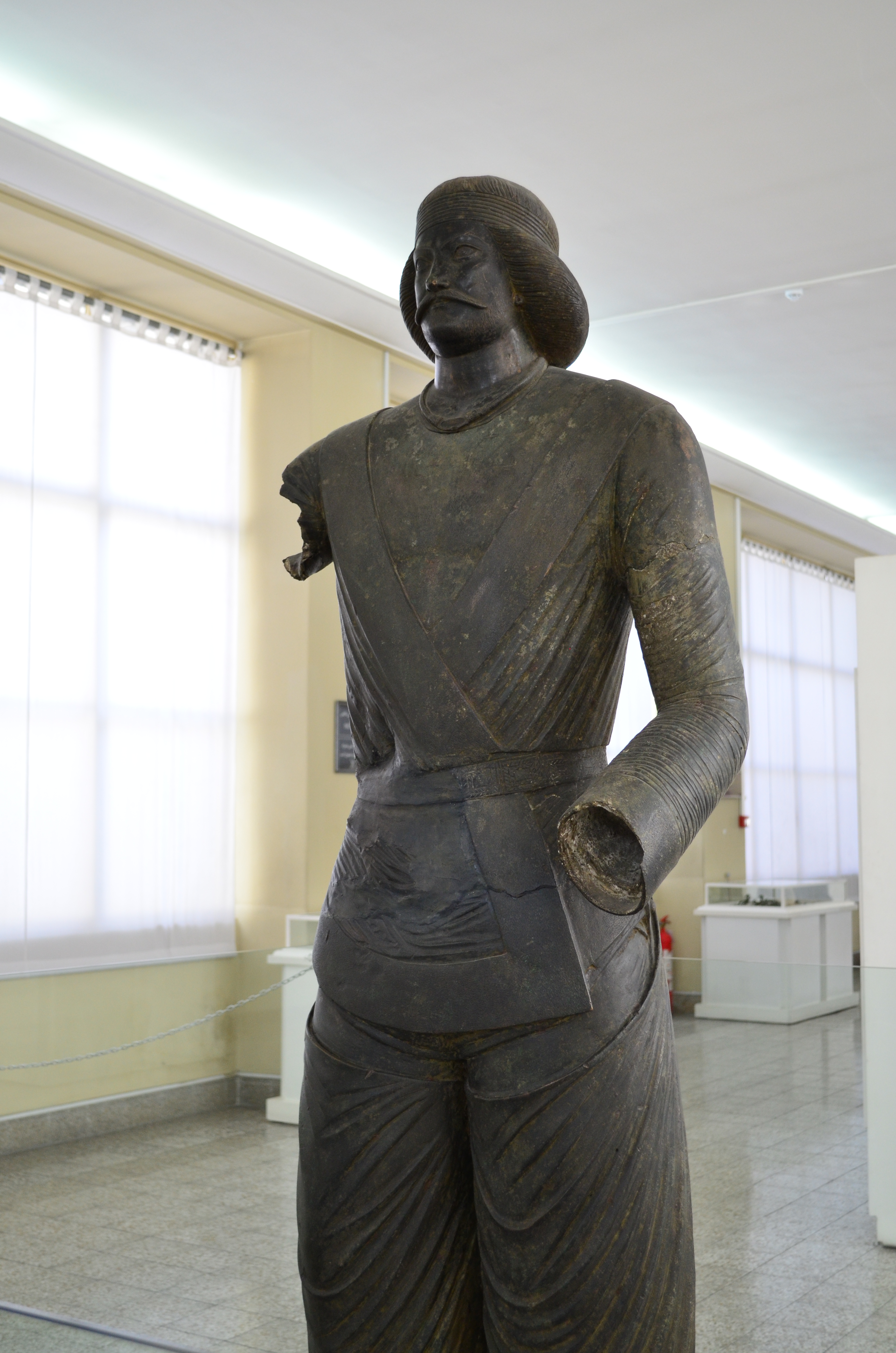 National Museum of Iran